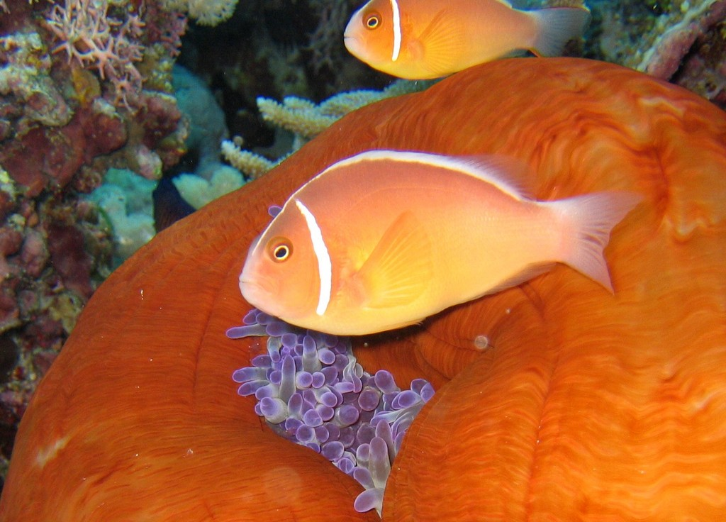 A pair of Pink Anemonefish (Amphiprion perideraion) and anemone. Cod Hole, Ribbon Reefs, Great Barrier Reef